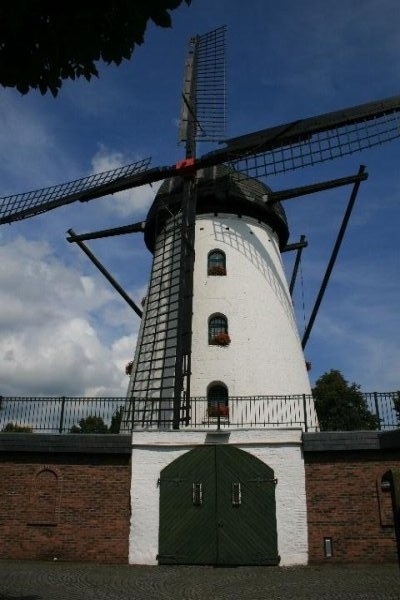 Cultural heritage monument No. 32 in Nettetal